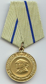 USSR Medal "Defense of Sevastopol" From Hebrew Wikipedia: [1]